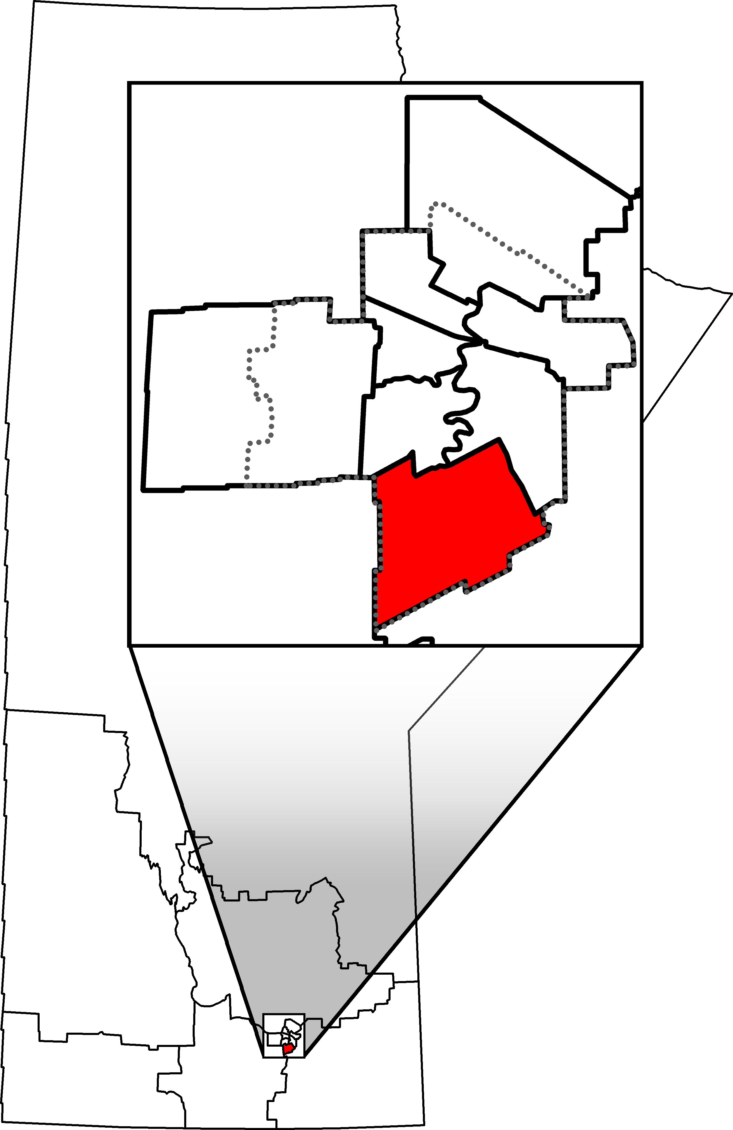 Federal Electoral District in Manitoba, Canada as of the 2013 Representation Order.